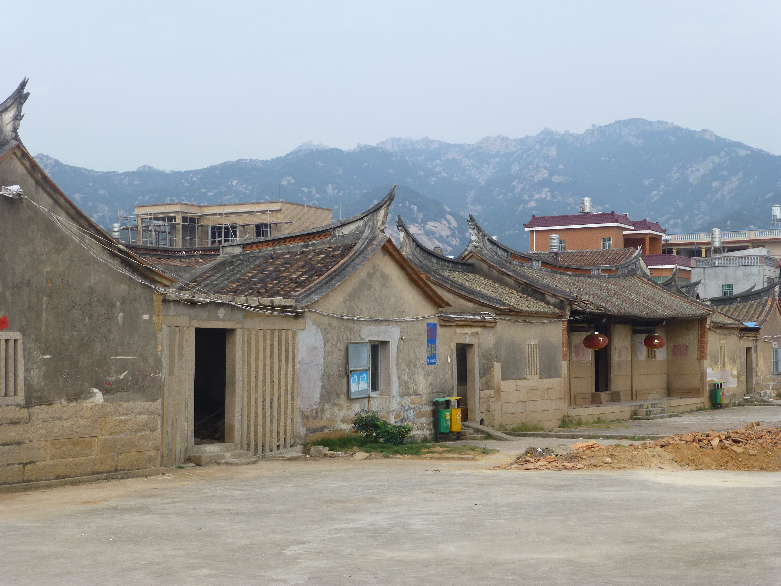 Xidan, a community of renovated traditional homes in Shentu Town, Zhangpu County, Fujian